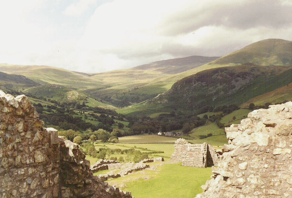 Castell y Bere, Gwynedd, Wales.